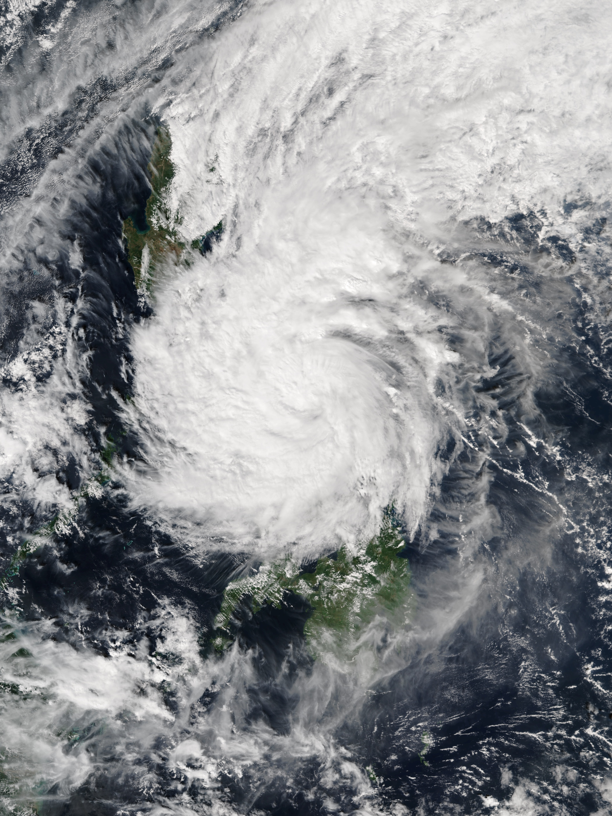 Typhoon Hagupit over the Philippines on December 7, 2014.